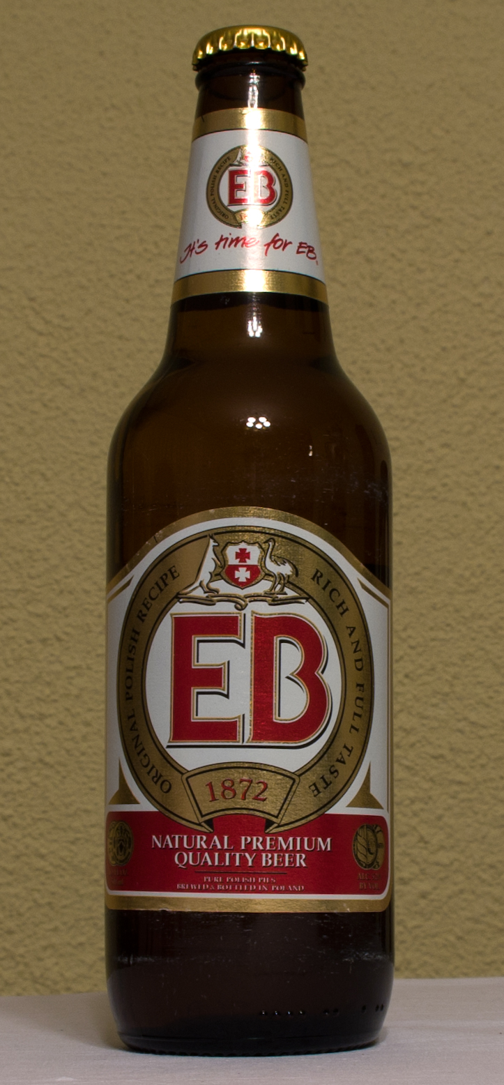 A bottle of EB beer